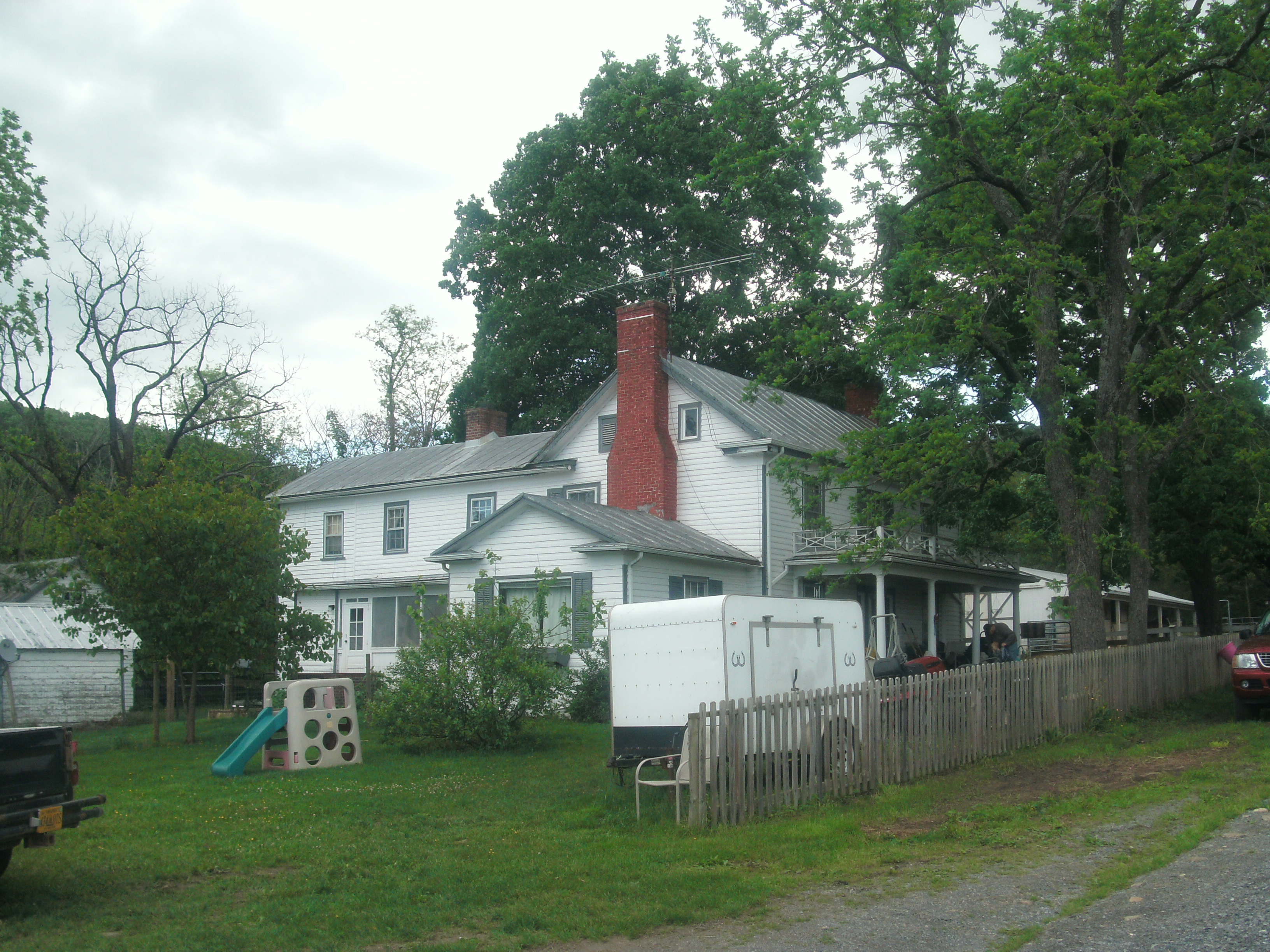 Taken by me in May, 2016 GEDSC DIGITAL CAMERA